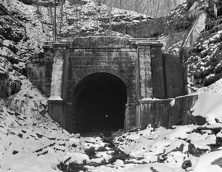 South portal of the Board Tree Tunnel, Marshall County, West Virginia, USA